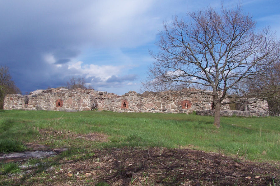 Ruin of the palace in the former city of Lyckå (today named Lyckeby and a part of the city Karlskrona).